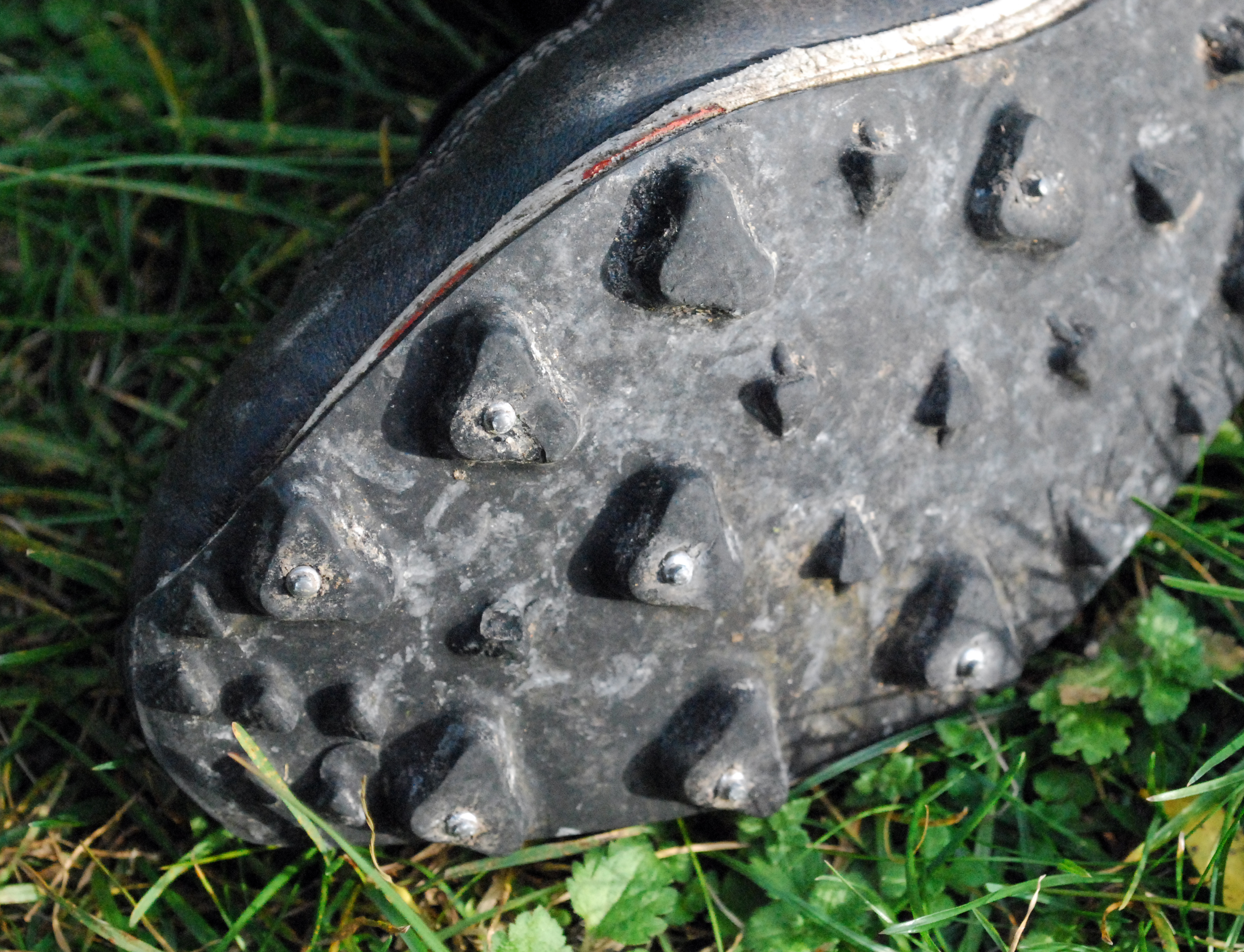 Soles of orienteering shoes